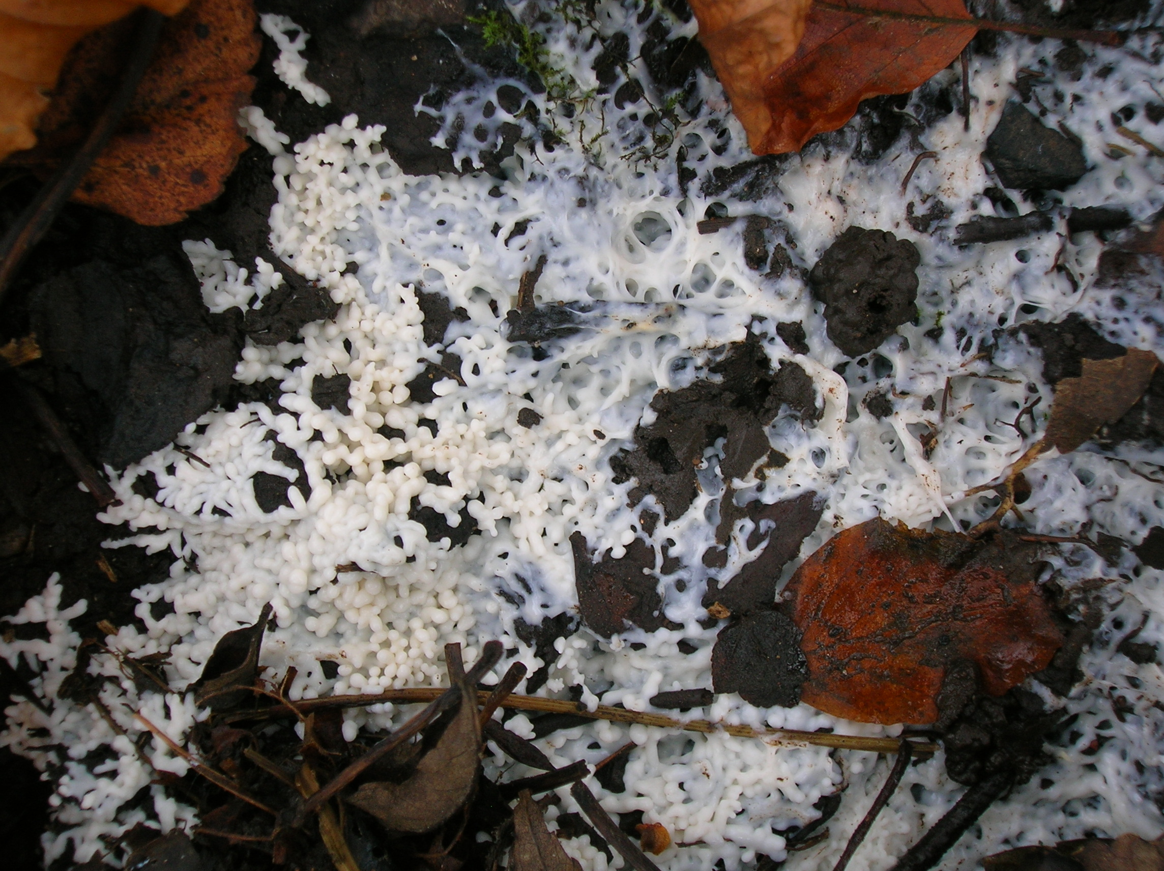 Brefeldia maxima (Tapioca slime mold) plasmodium flowing on a log, Spier's, Beith, North Ayrshire, Scotland.